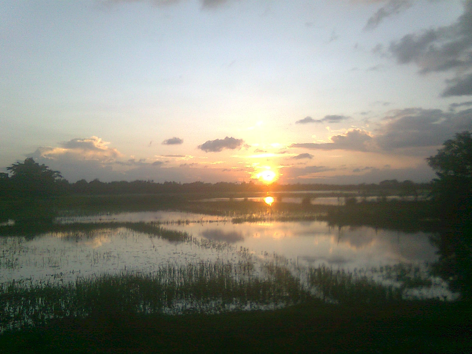 This is a picture of sunset in the village of Kishorchak in Purba Medinipur district.